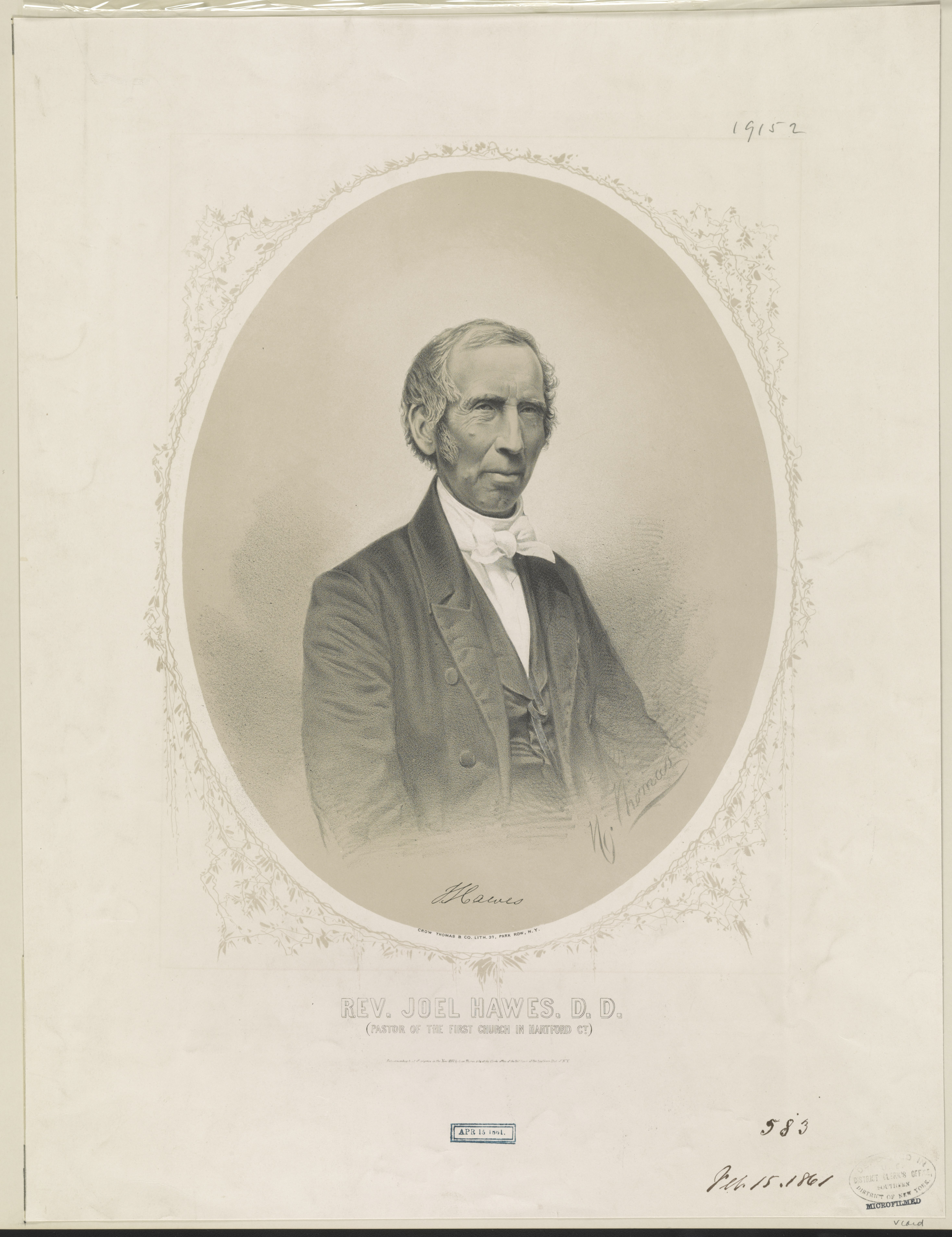 Title: Rev. Joel Hawes, D.D. Pastor of the First Church in Hartford Ct Physical description: 1 print. Notes: This record contains unverified data from PGA shelflist card.; [Inscribed] Feb. 15, 1861 No. 583. Also No. 19152 [stamped] Apri. 15. 1861.; Associated name on shelflist card: Crow Thomas & Co.